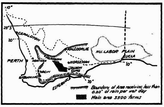 Map of southern WA showing features including the area to be settled by the 3500 farms scheme